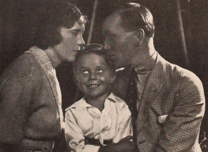 Still from the American comedy romance drama film Pink Tights (1920) with Gladys Walton, B. Reeves Eason, Jr., and Jack Perrin, on page 85 of the October 23, 1920 Exhibitors Herald.